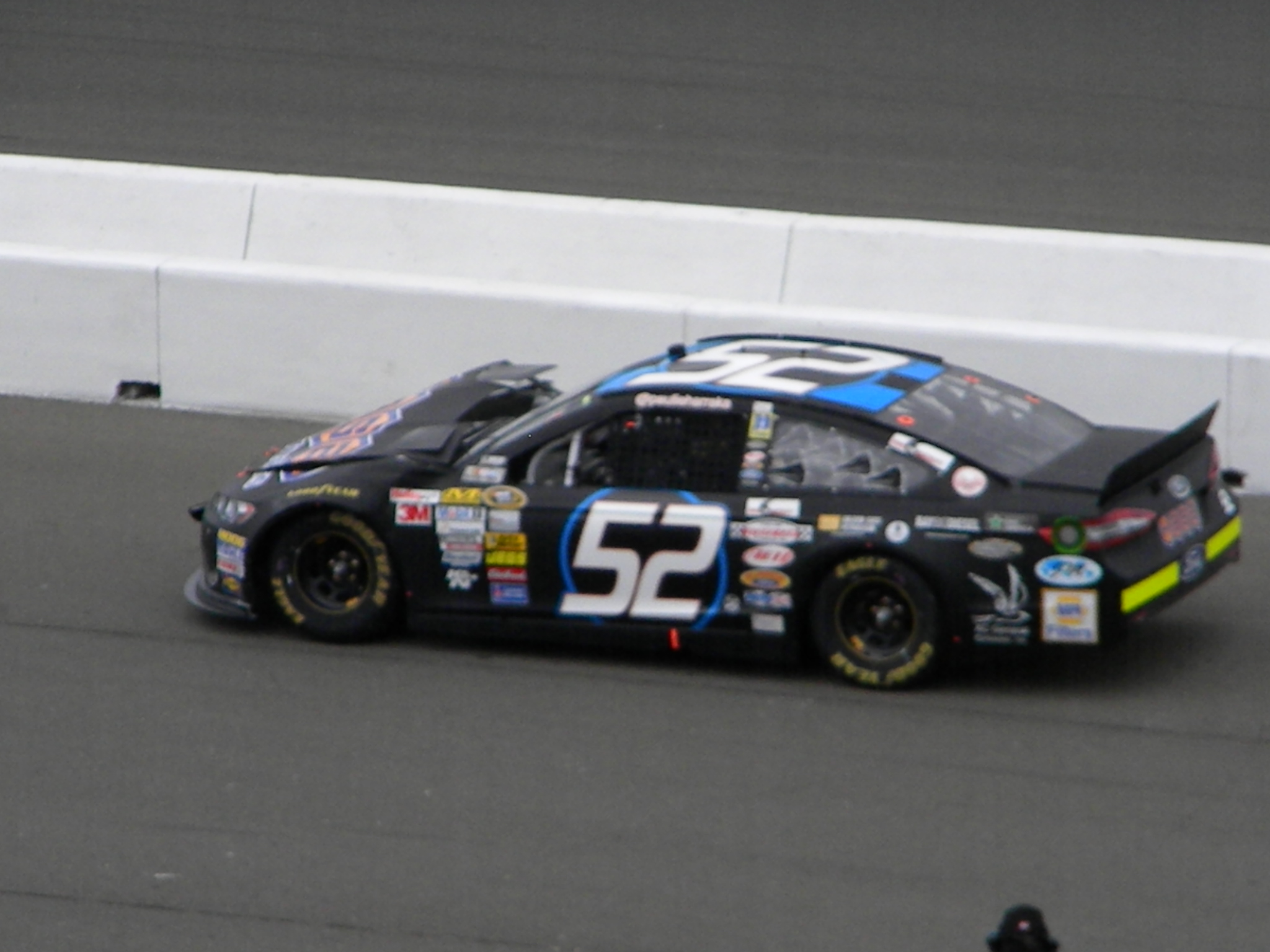 Paulie Harraka after crashing during the warm-up lap at Sonoma Raceway (2013)